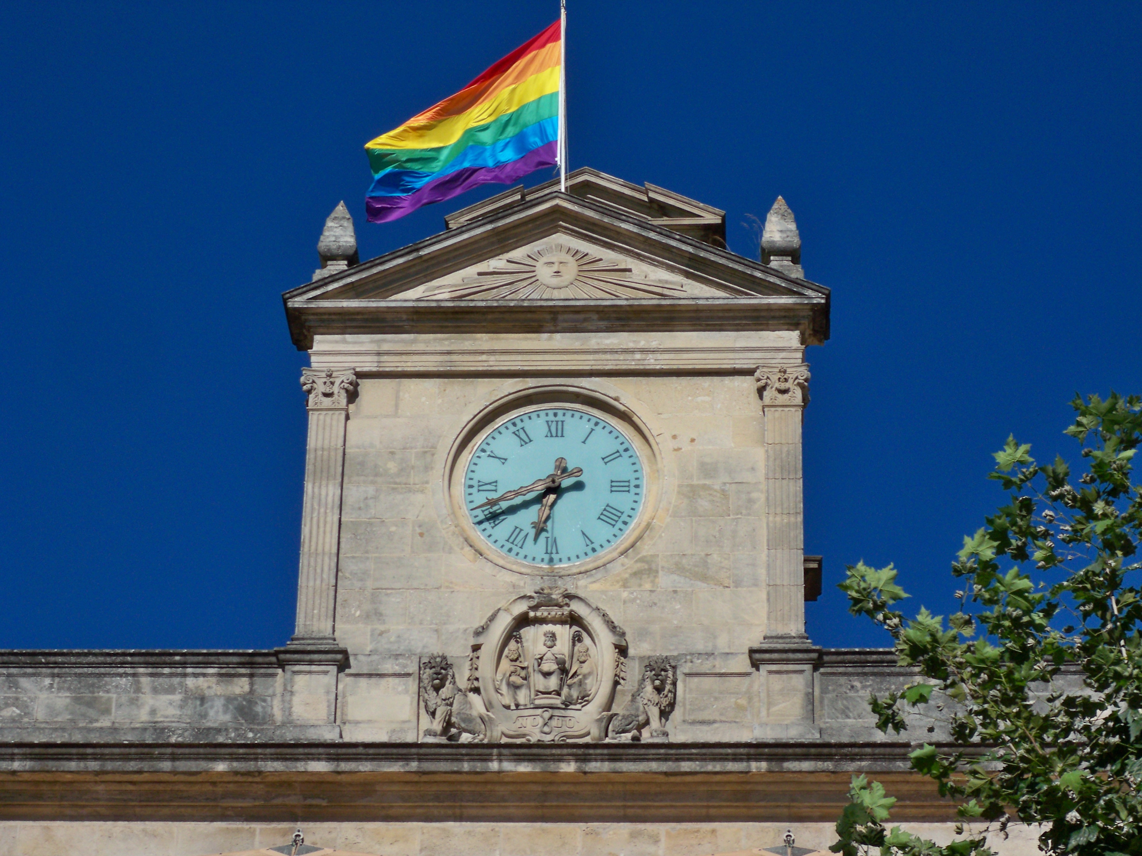 Gay Pride flag on the City Hall of Seville on the first Gay Pride Parade in 2009.